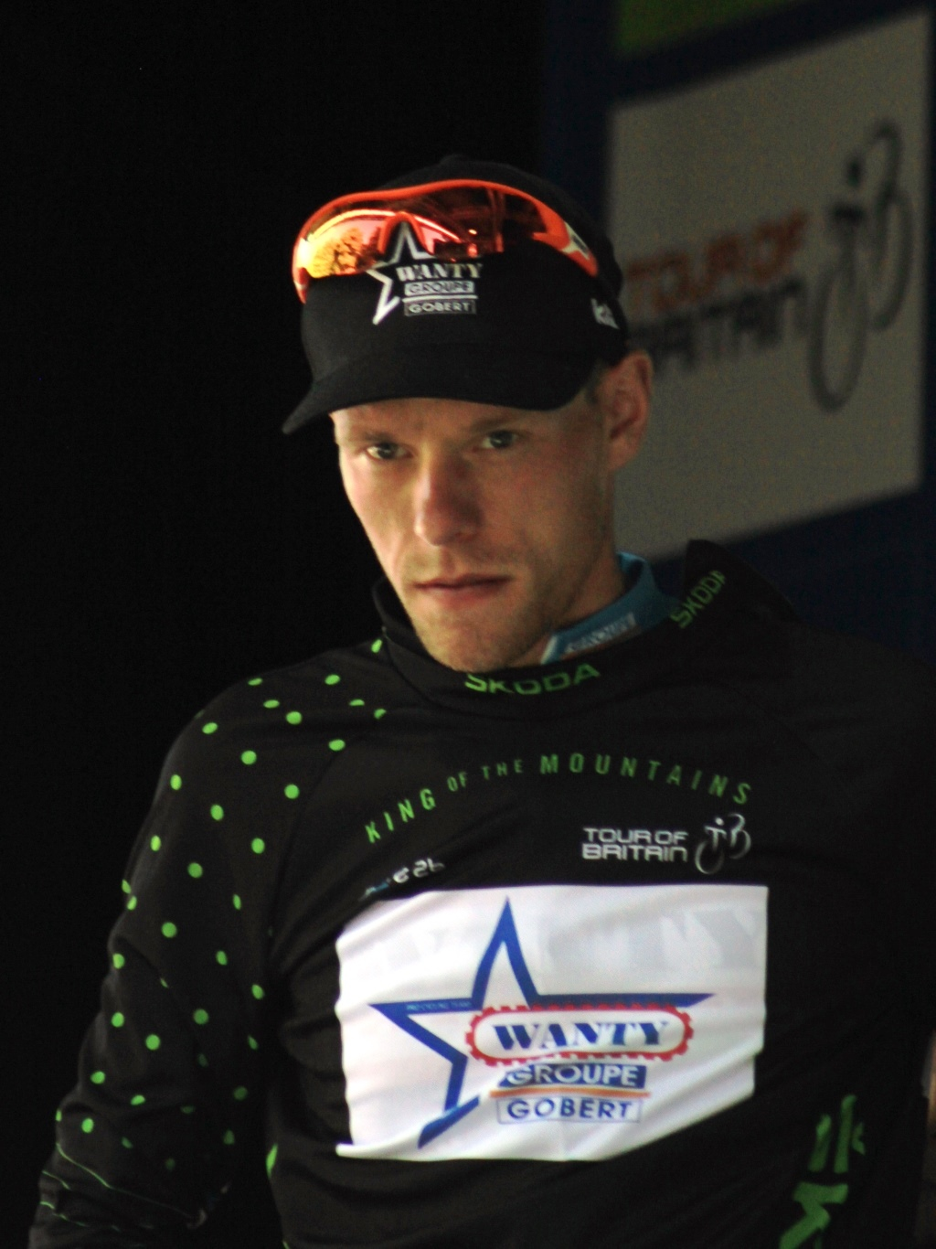 Xandro Meurise, riding for the Belgian Wanty/Grouppe Gobert cycling team, wears the King of the Mountains jersey at the end the fifth stage of the 2016 Tour of Britain.